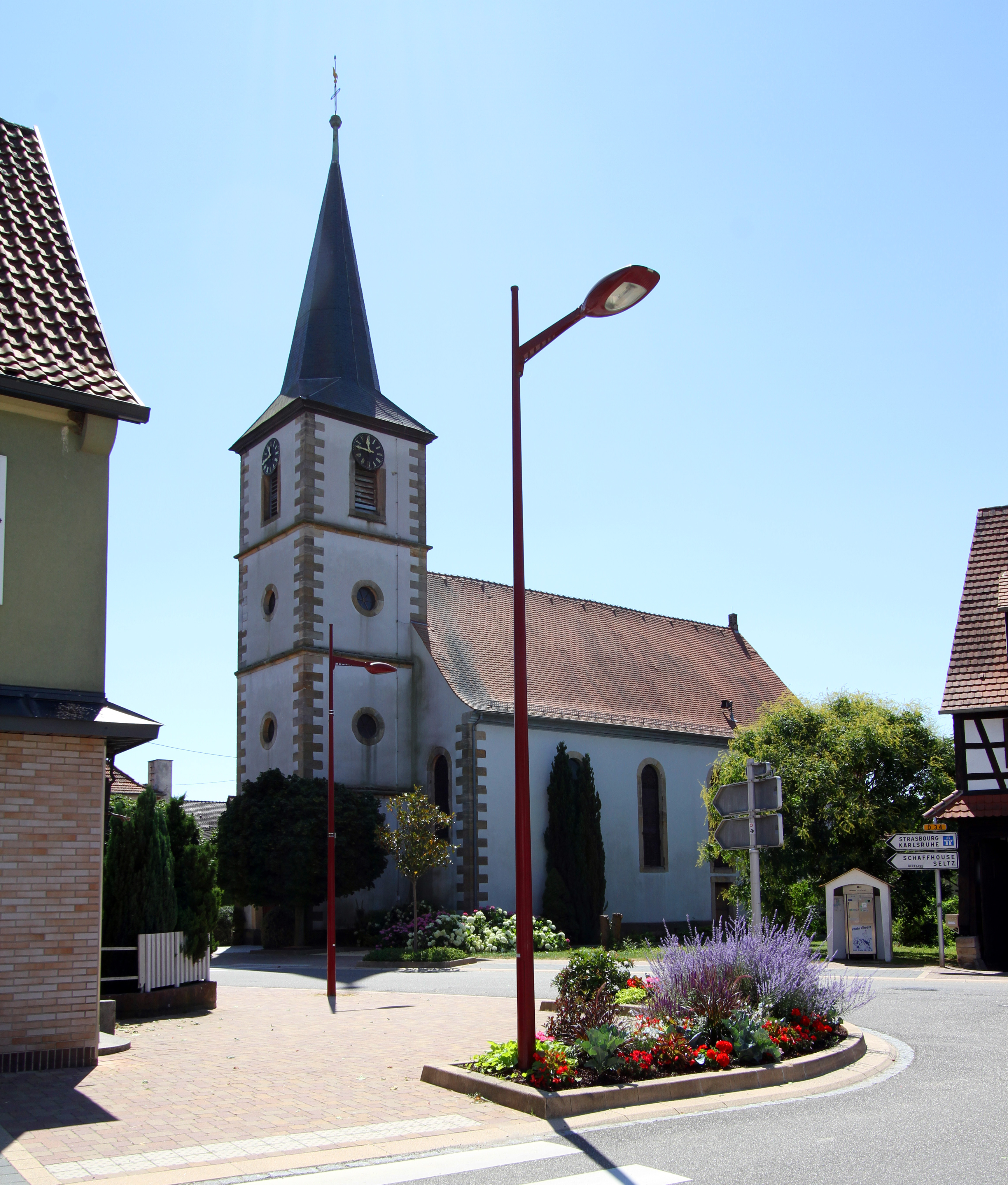 Church of Saint-Jacques-le-Majeur in Niederroedern.